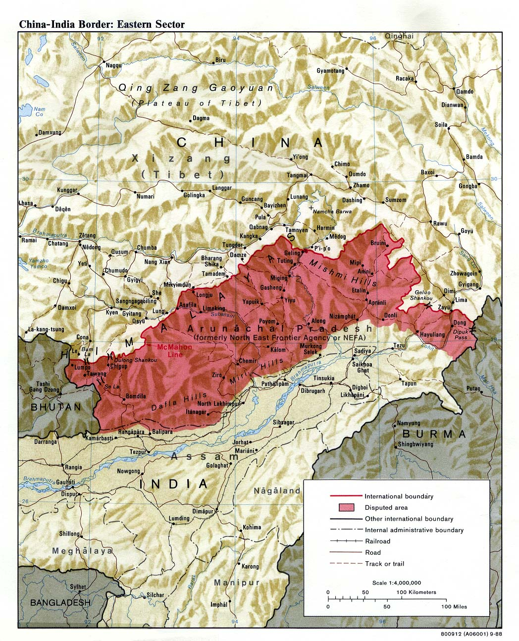 China India eastern border